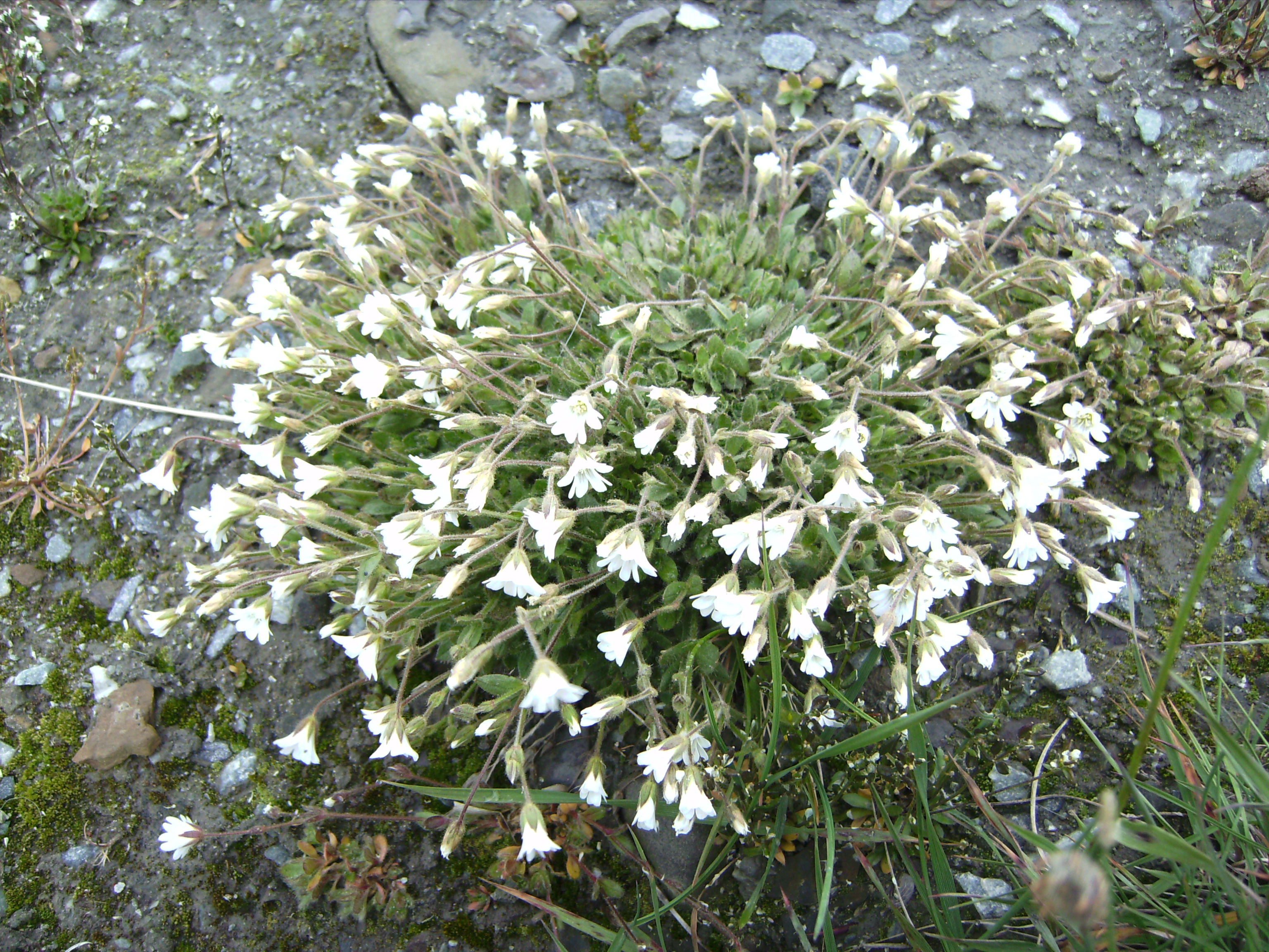 Stellaria longipes with its flowers lying down in the morning cold, Longyearbyen, Svalbard